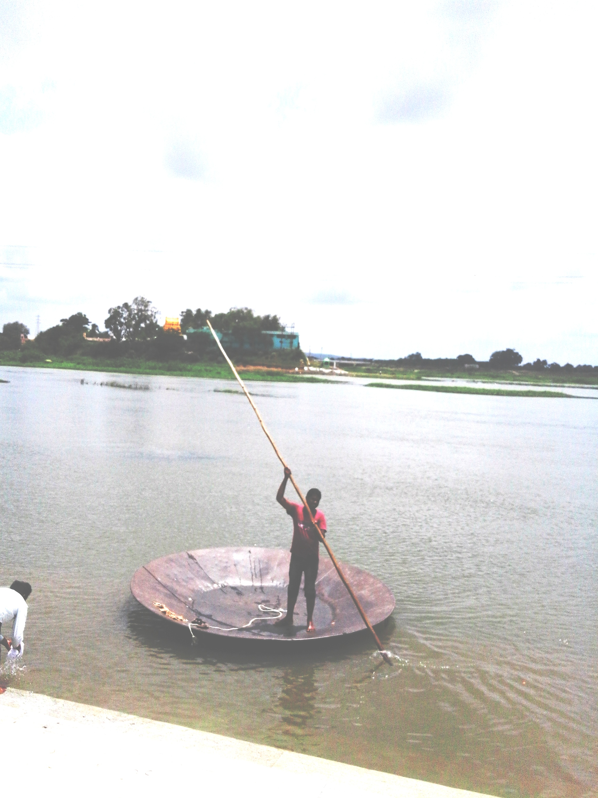 T.Narasipura Highway junction, Mysore-Kollegal road, Karnataka state, India.